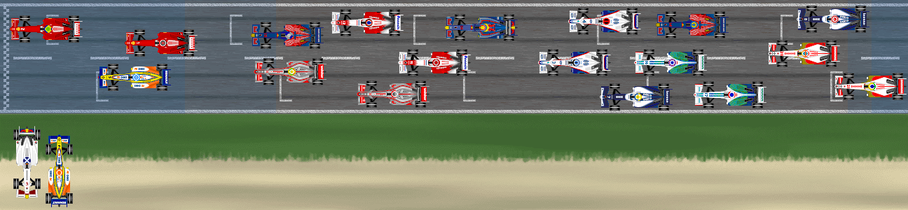 2008 F1 season Race result of 2008 Brazilian Grand Prix in Sao Paulo